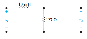 RL Circuit passive low-pass example